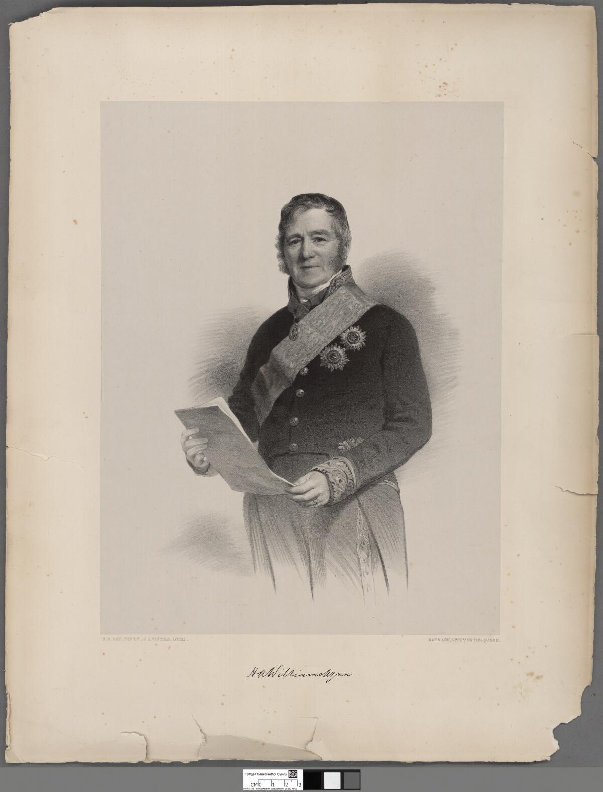 A portrait from the Welsh Portrait Collection at the National Library of Wales. Depicted person: Henry Williams-Wynn – British Member of Parliament